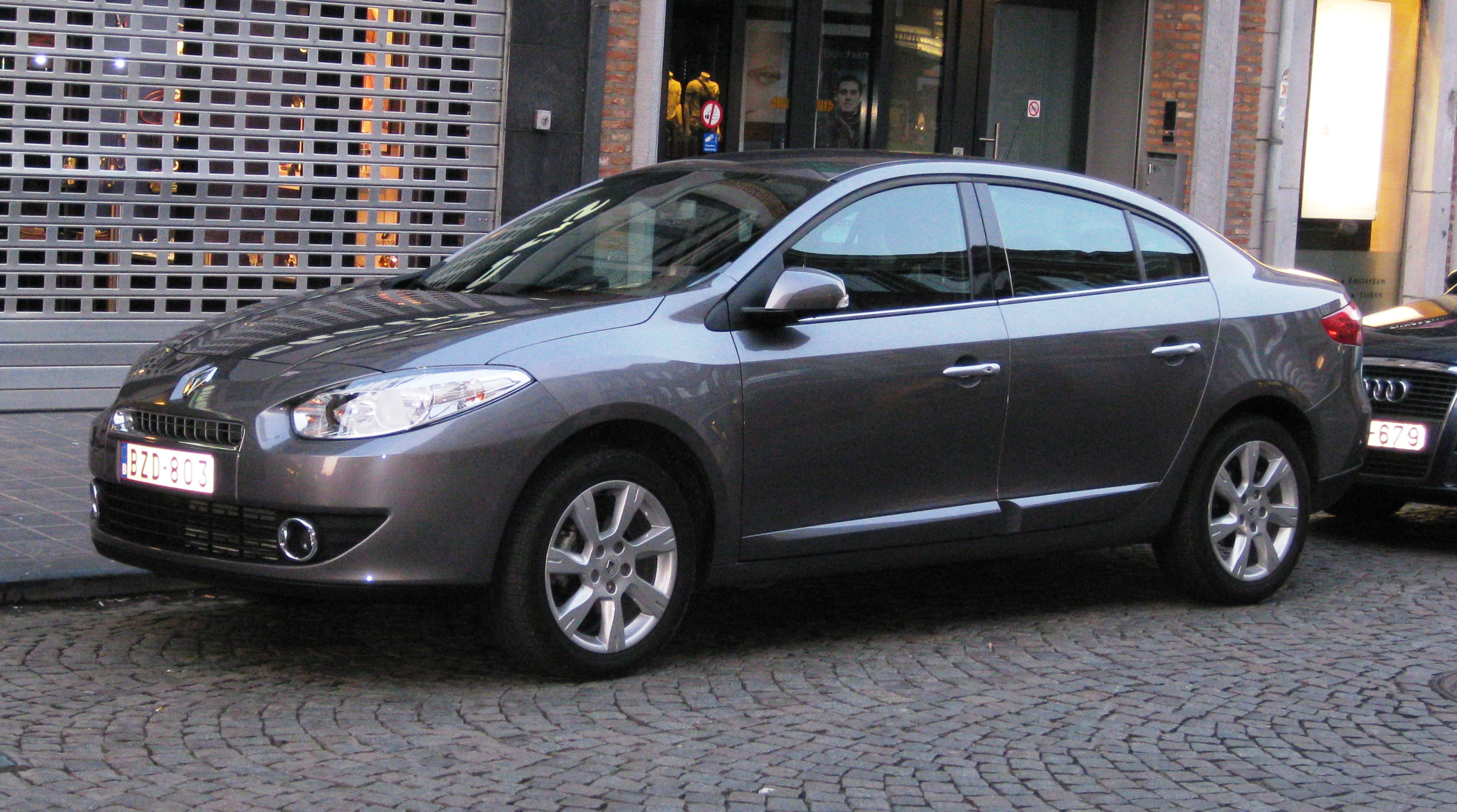 Renault Fluence in Luikse Straat